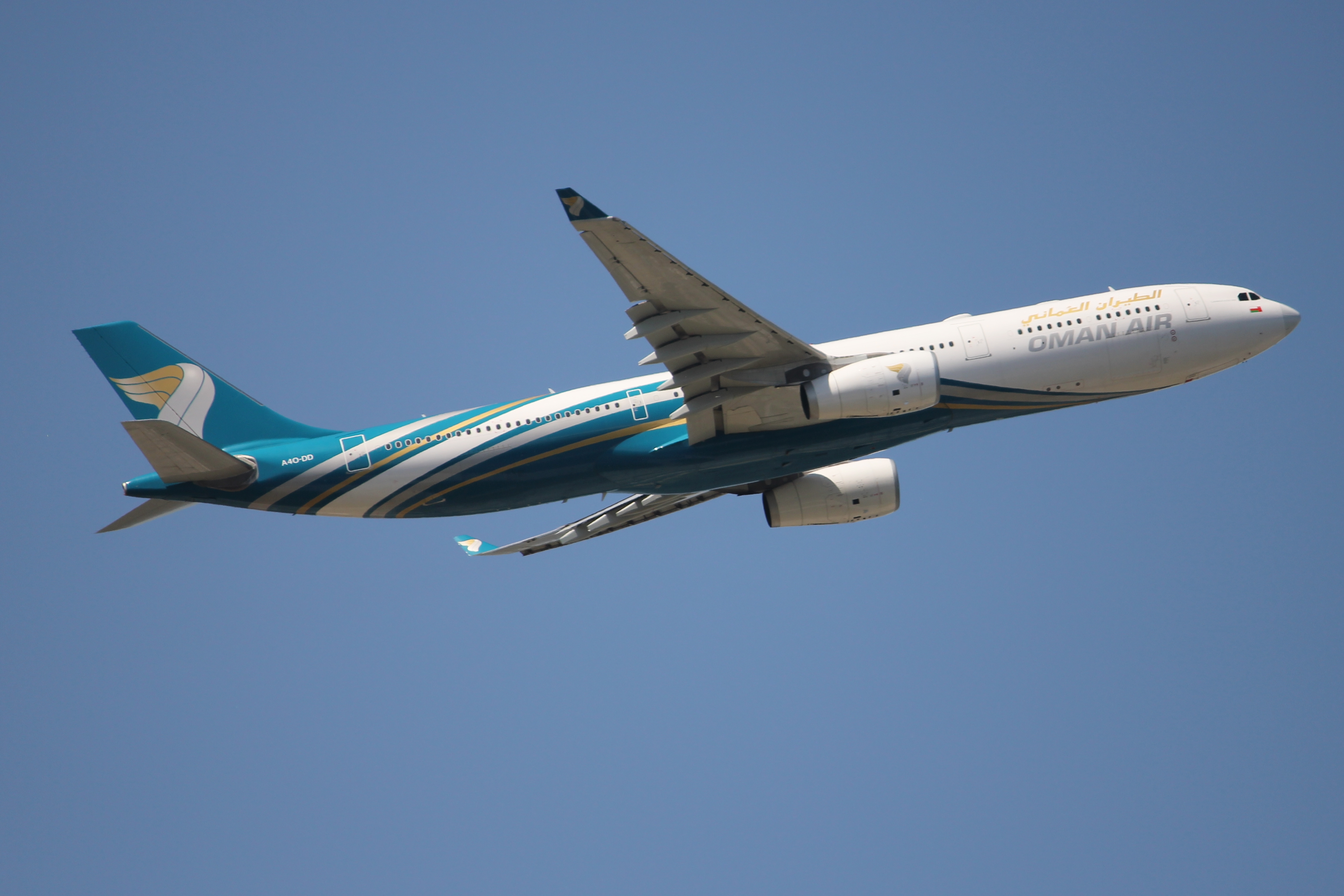 Oman Air A330-300 takes off at Frankfurt intl. Airport